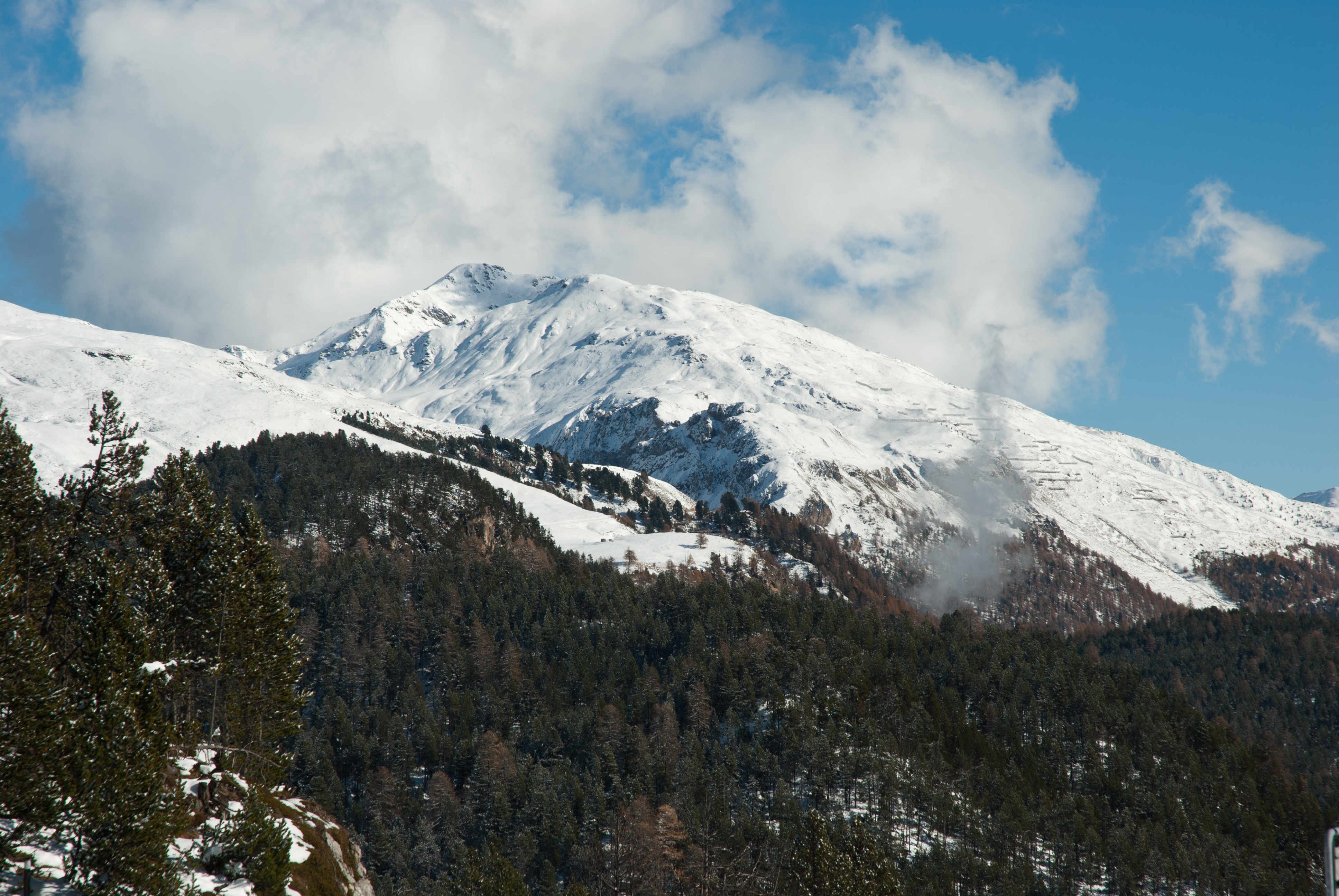 Piz Terza or Urtirolaspitz seen from the Ofenpass